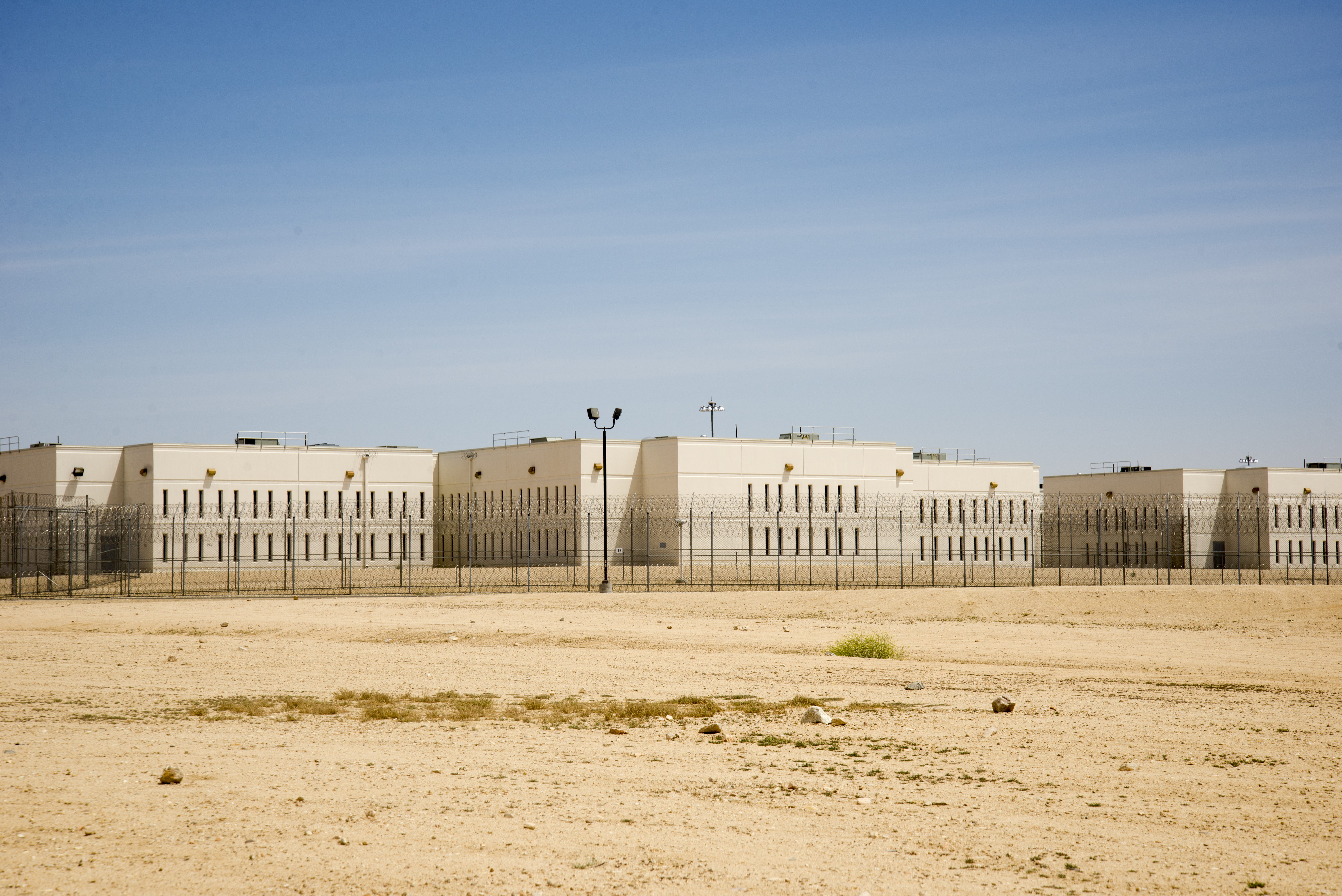 Taken with @rogre on a day-long exploration of California City and surrounding Mojave area.